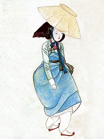 Cropped the original to use to illustrate Hanbok